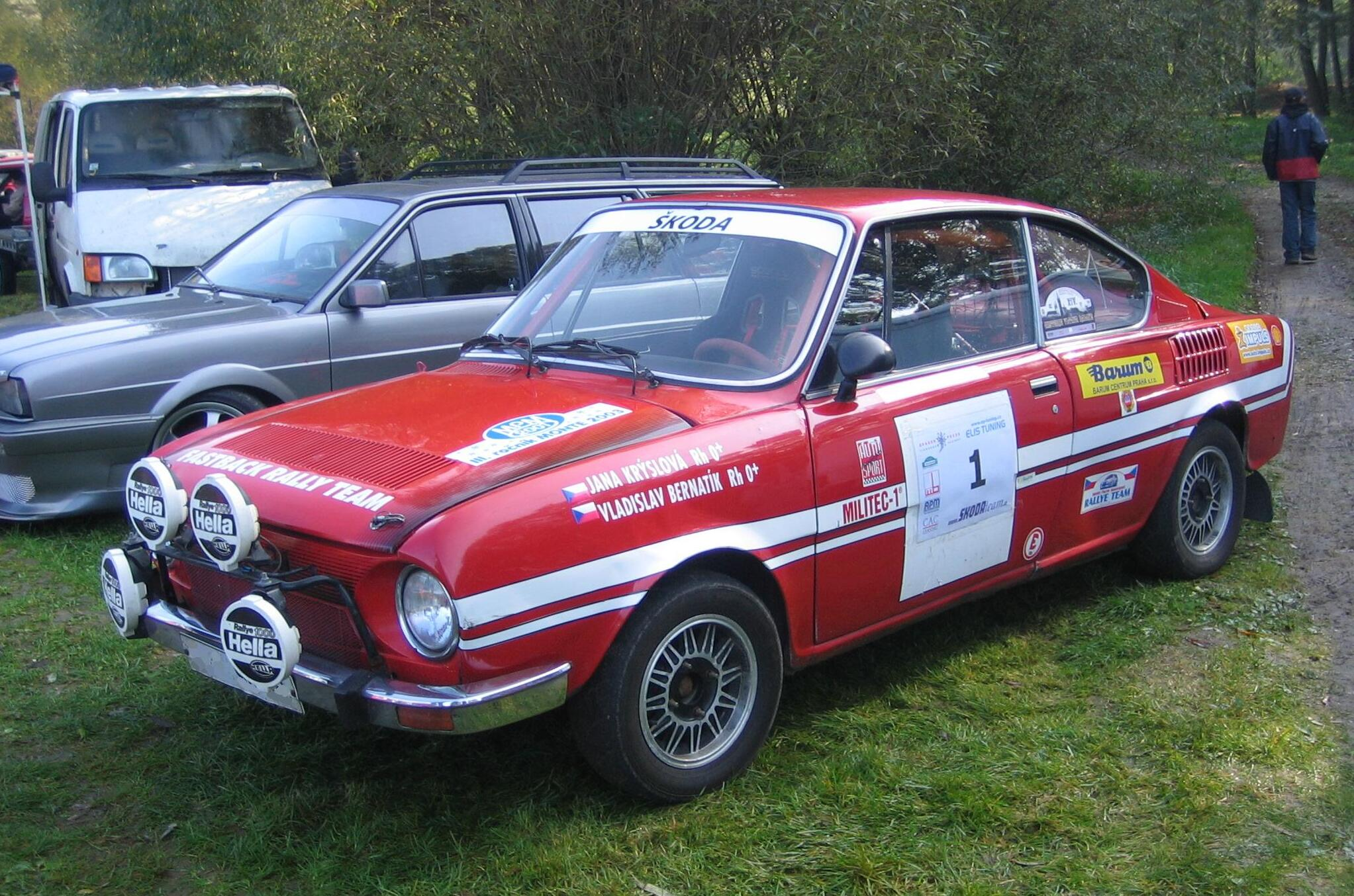 racing Škoda 110 R